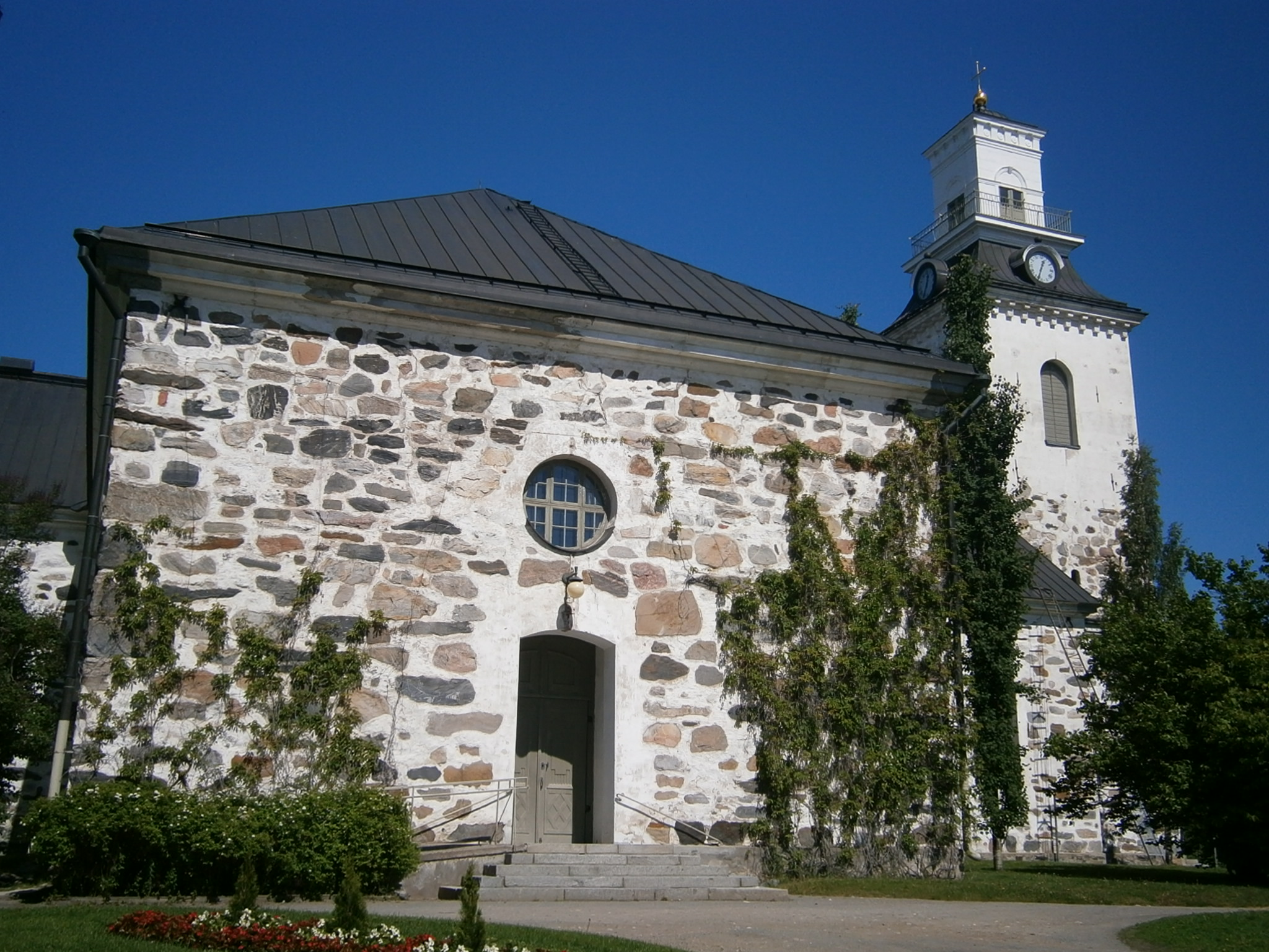 Kuopion tuomiokirkko